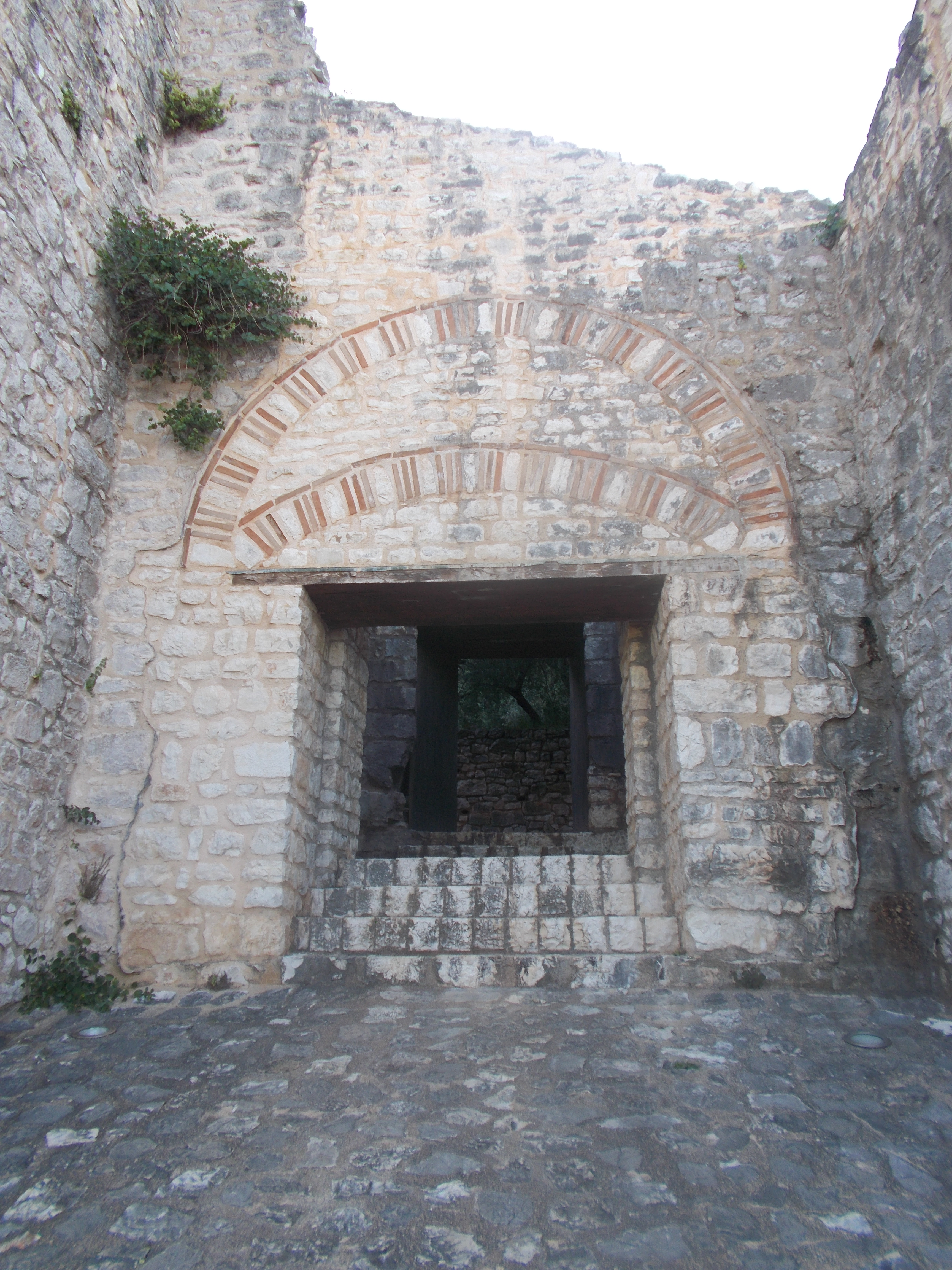 Main Gate of Cassiopi Castle and surrounding walls